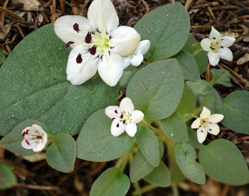 Howellanthus dalesianus - (Phacelia dalesiana). Near Kangaroo Lake in the Klamath National Forest, California.""